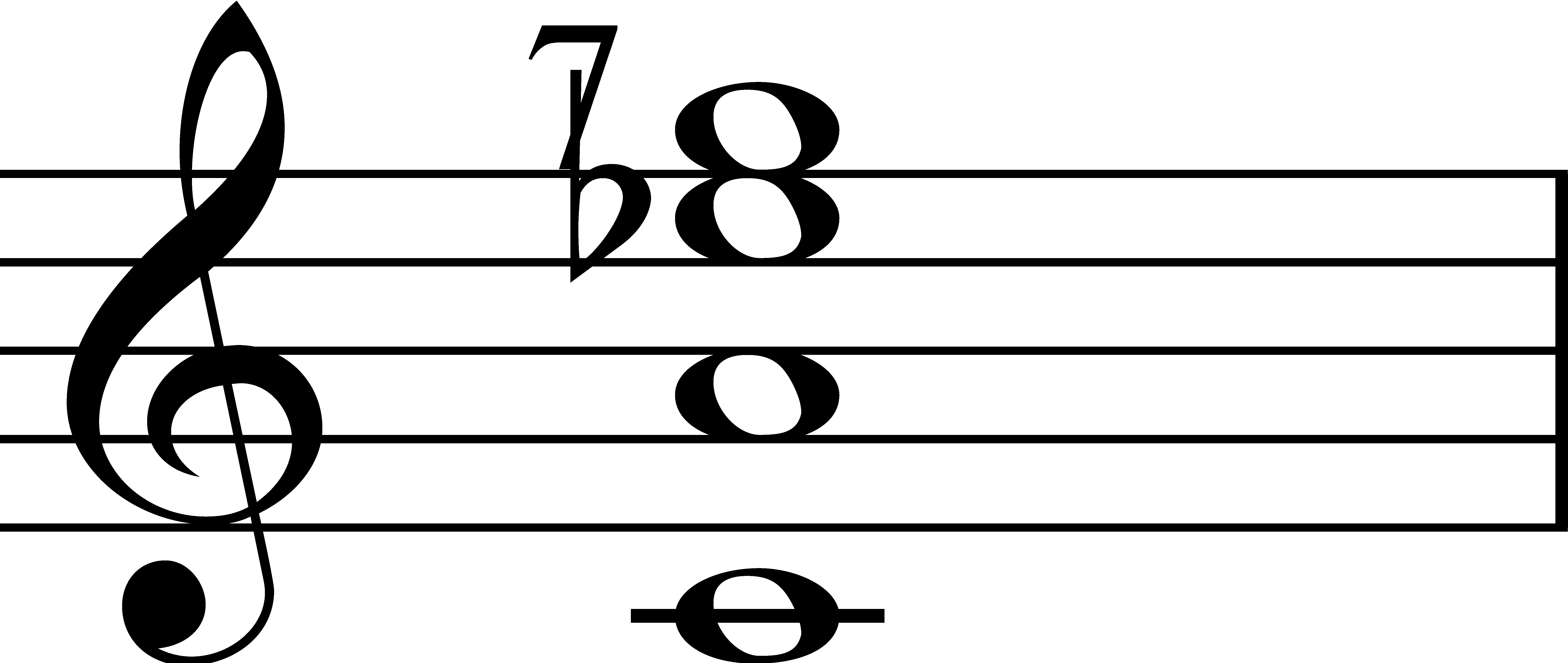 Bohlen-Pierce tuning triad on C in Ben Johnston's just notation. 3:5:7:9 = C:A:E♭:G.